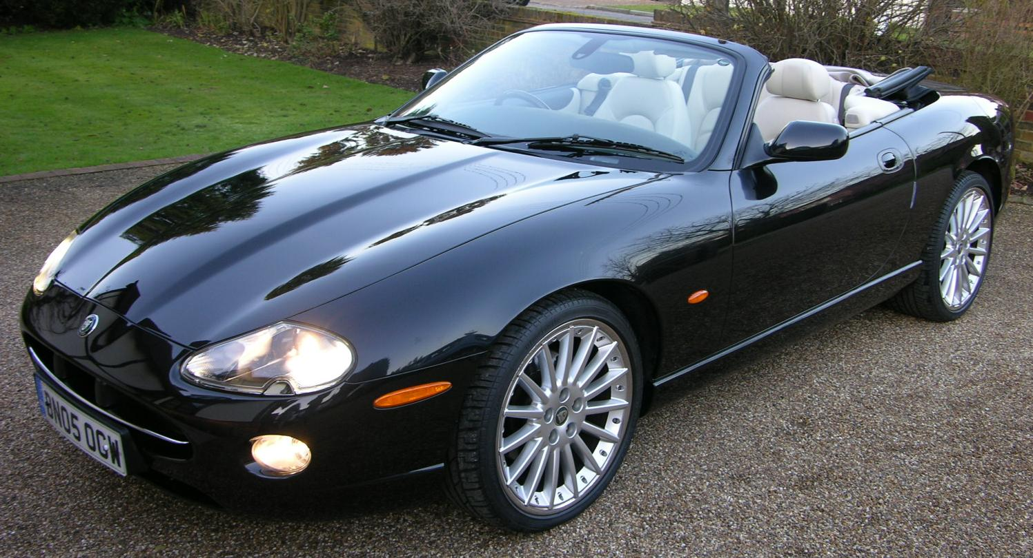 Jaguar XK8 Convertible